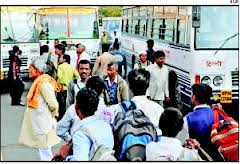 Roadways Service